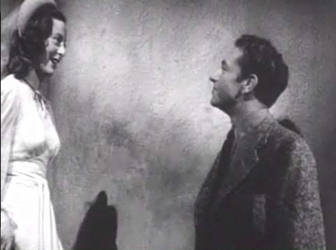 Screenshot of Michèle Morgan and Paul Henreid from the trailer for the film Joan of Paris